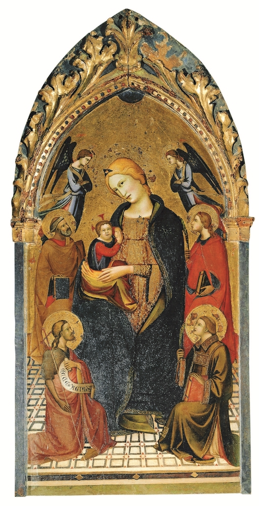 Lorenzo Monaco, Madonna of Humility, c. 1385-1390, Galleria dell'Accademia, Florence